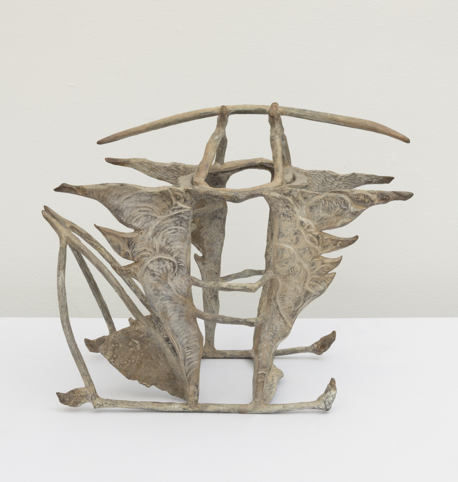 (Image Courtsey Welancora Gallery and the Artist, Photography by Adam Reich)